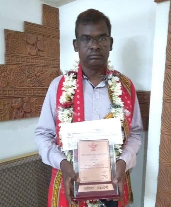 Rupchand Hansdah, receiving Sahitya academi Translation Award for his translated book "Sen dareyak anj, menkhan chedah".